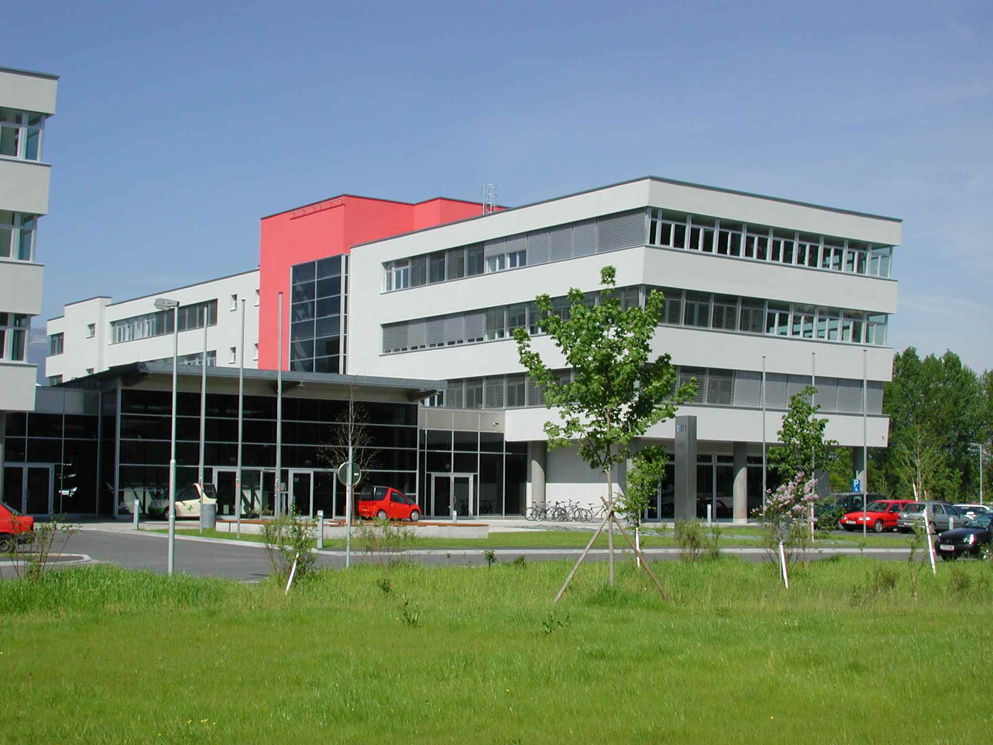 Fachhochschule Kärnten, Standort Villach